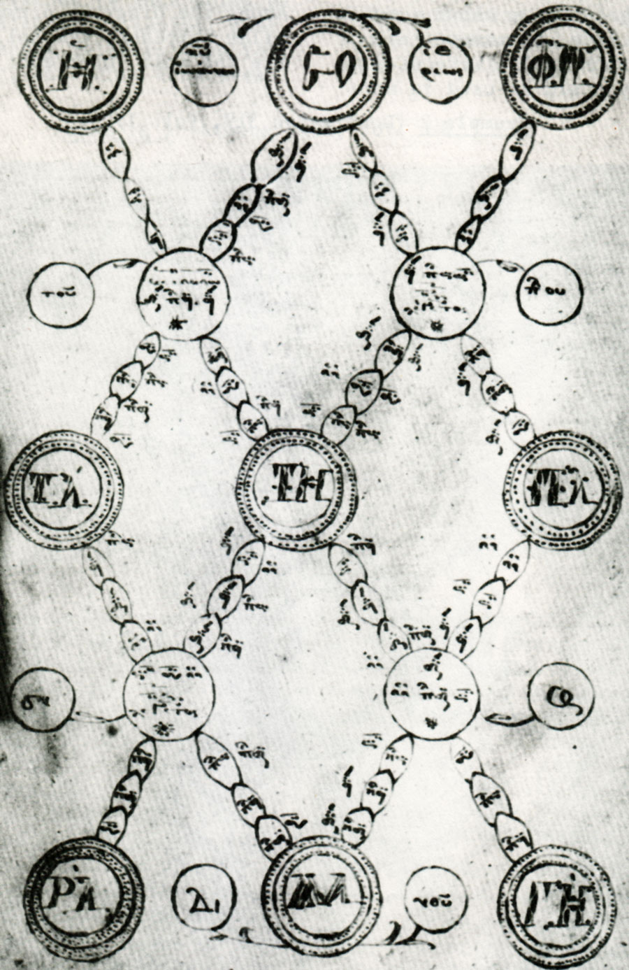 Solfeggio for the triphonic tone system used in 15th-century Byzantine chant